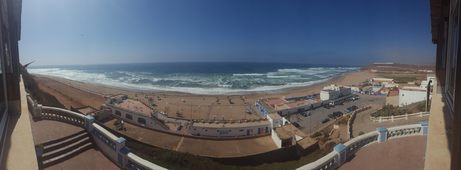 Sidi Ifni Beach